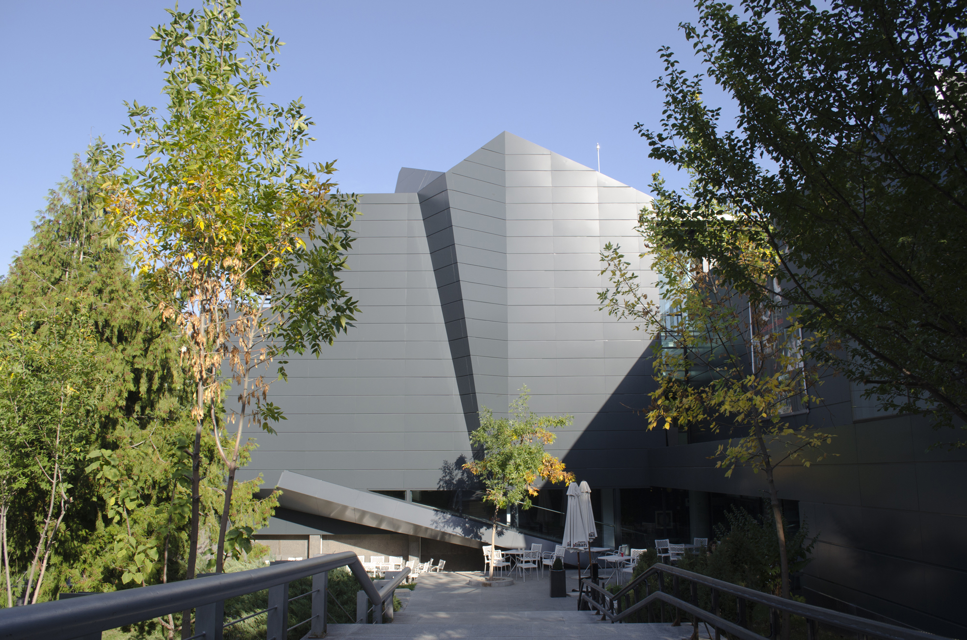 UniArt Gallery - A view from the outside